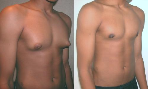 Adolescent with gynecomastia.